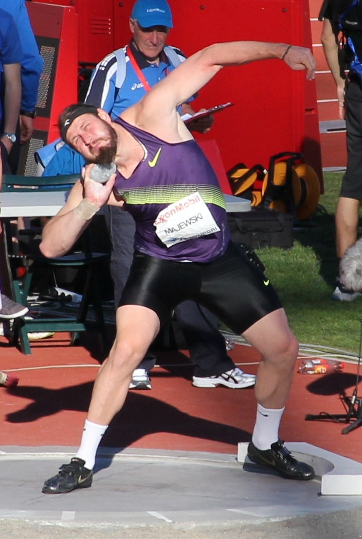 Tomasz Majewski in action during Bislett Games 2010